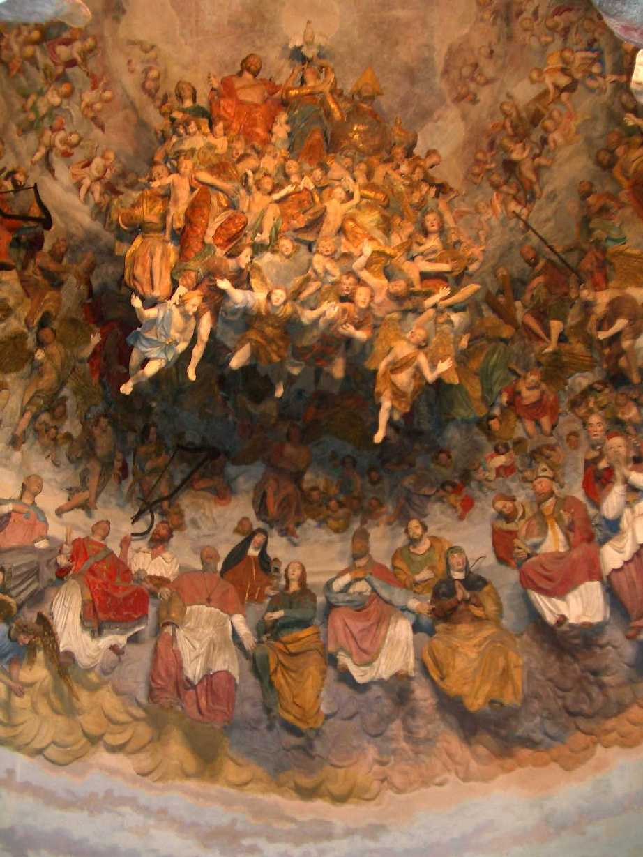 The Sacro Monte of Serralunga di Crea (Piedmont, Italy) Clay statues pf the Paradise Chapel